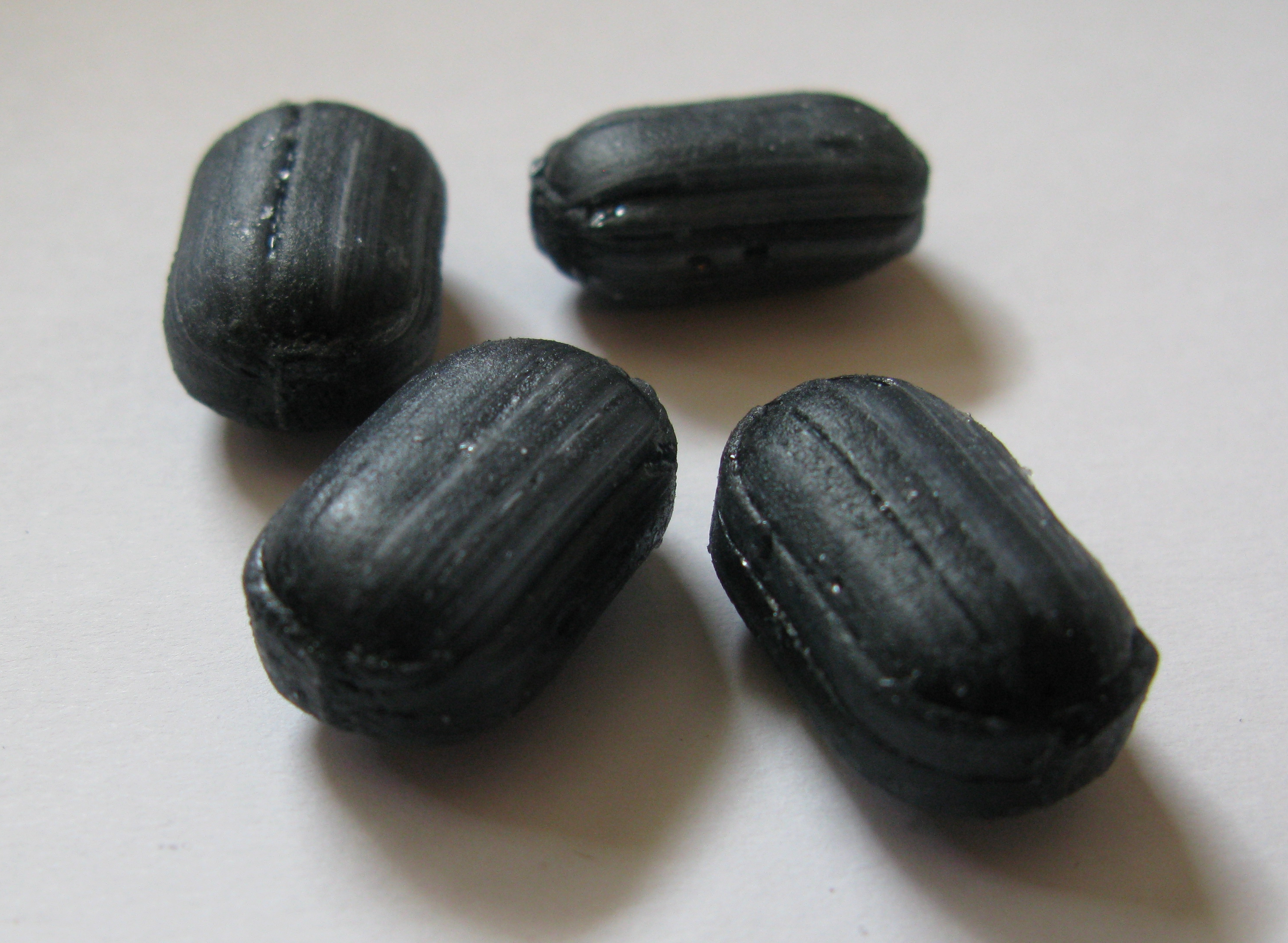 Lozenge of the miner sweets.